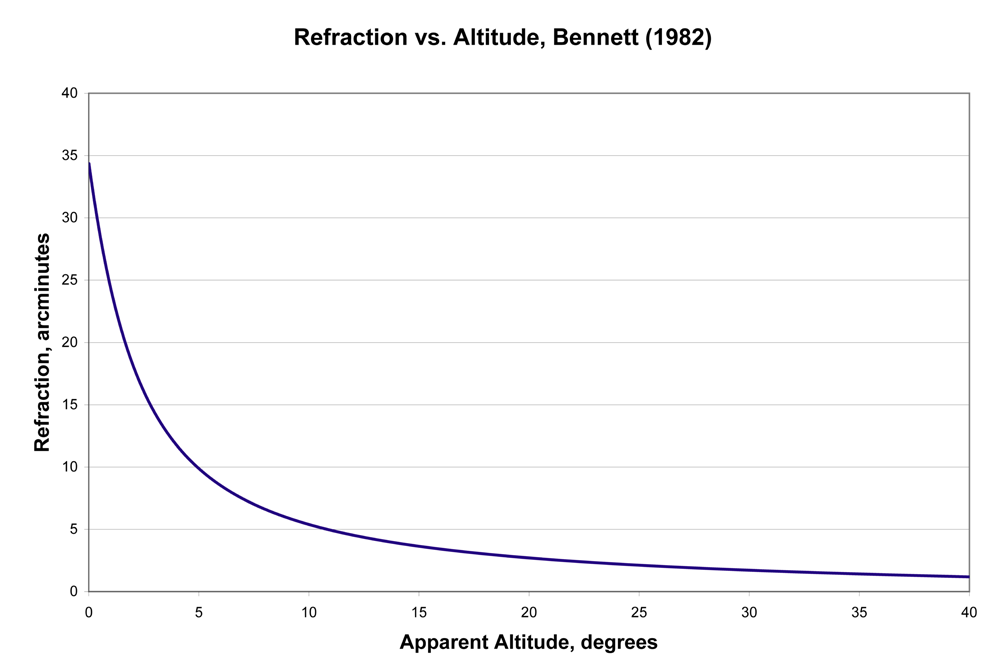 Plot of atmospheric refraction vs. apparent altitude, using G.G. Bennett’s 1982 formula. Author: Jeff Conrad